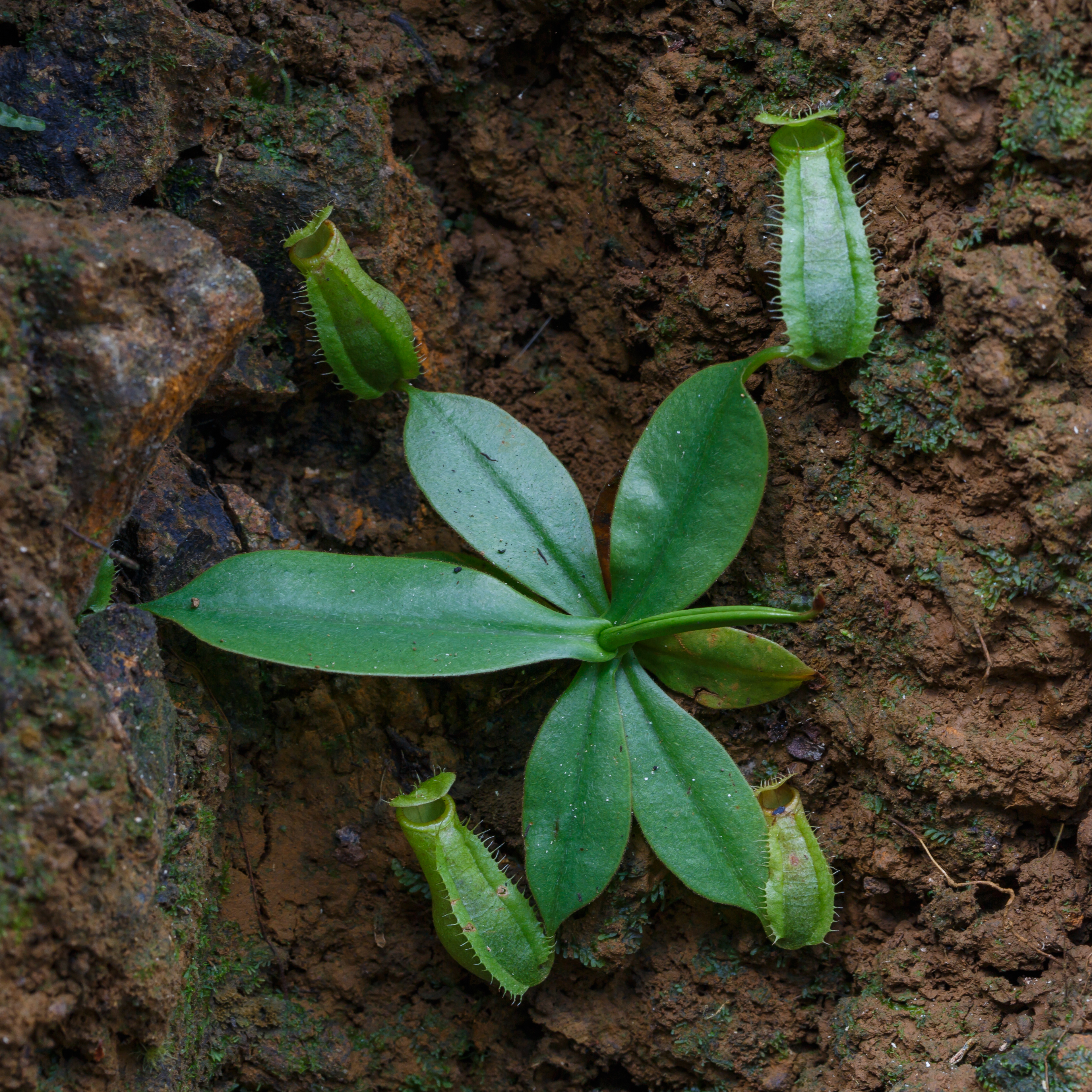 Mount Silam, Lahad Datu, Sabah: A pitcher plant (Nephentes) at Mount Silam